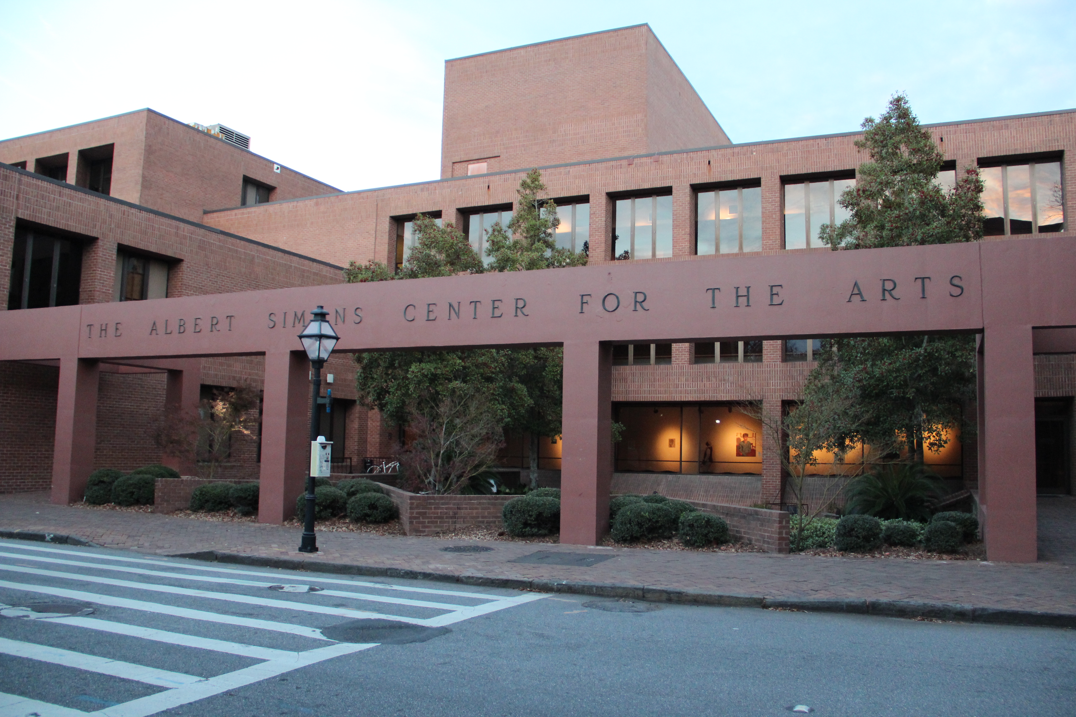 Albert Simons Center for the Arts, College of Charleston